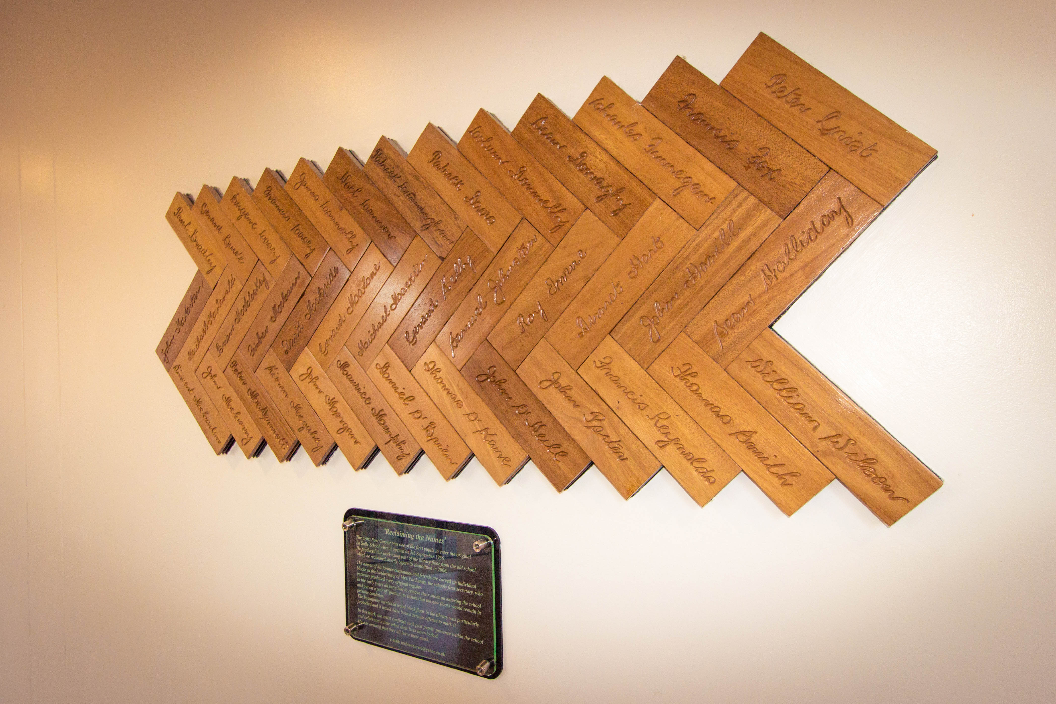 The floorboards from the old La Salle building were made into a display for the new building with the names of the first class register engraved into the wood.